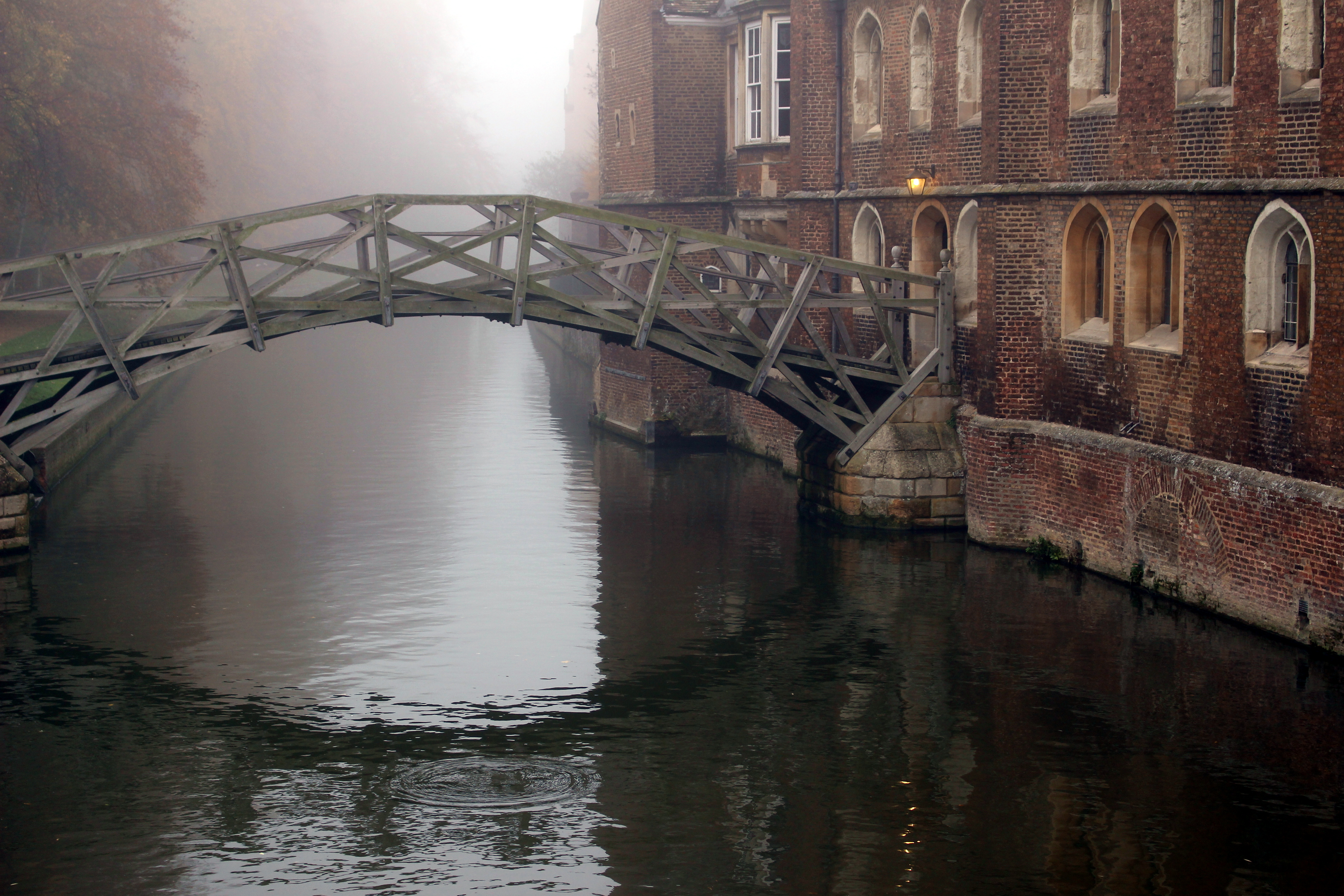 The Mathematical Bridge across River Cam in Cambridge, England.